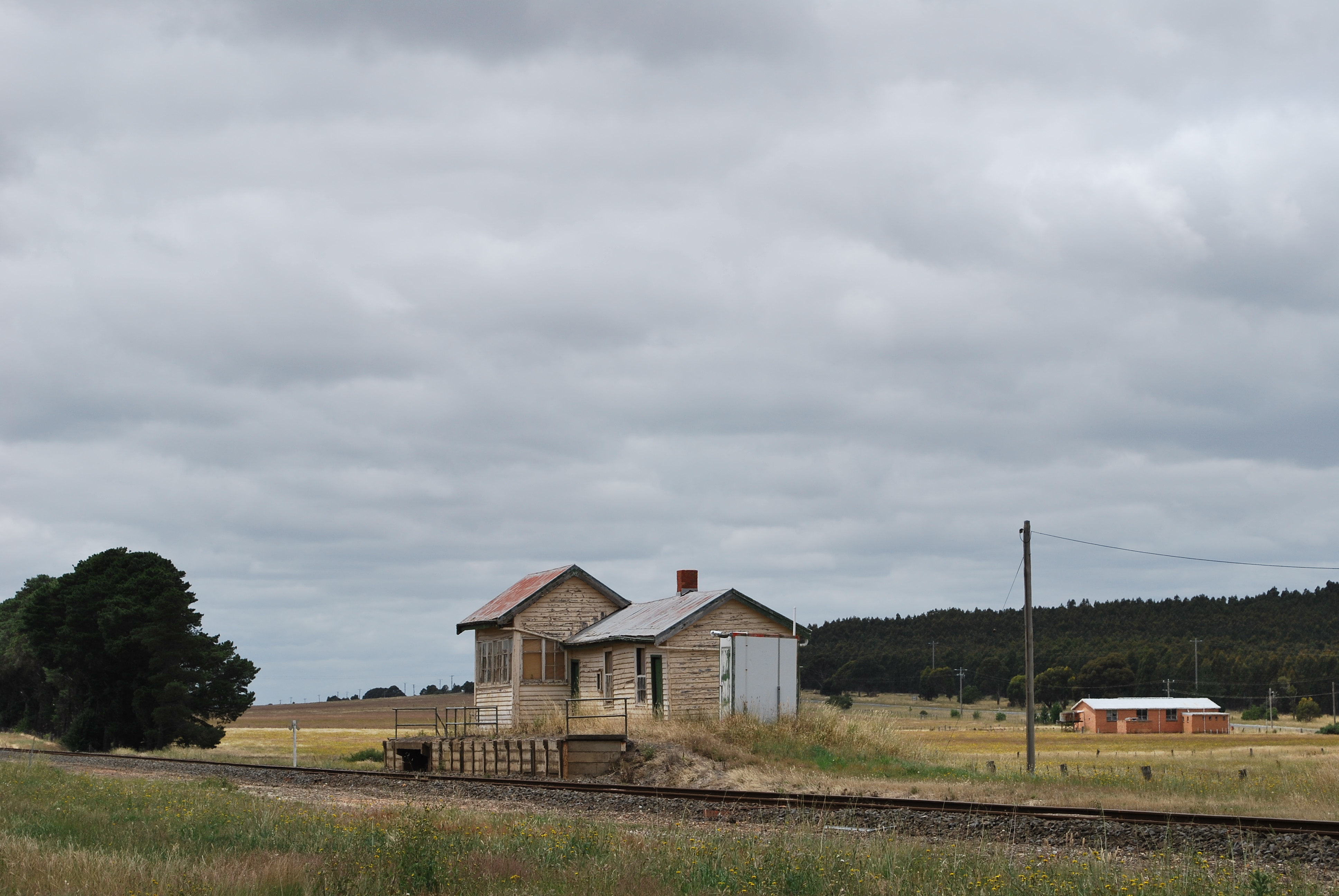 Train station at Trawalla, Victoria